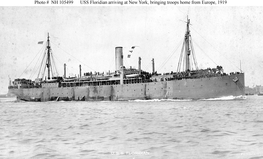 United States Navy troop transport USS Floridian (ID-3875) arriving at New York City with her decks crowded with troops returning from service in Europe during World War I. The Statue of Liberty is in the distance at left.